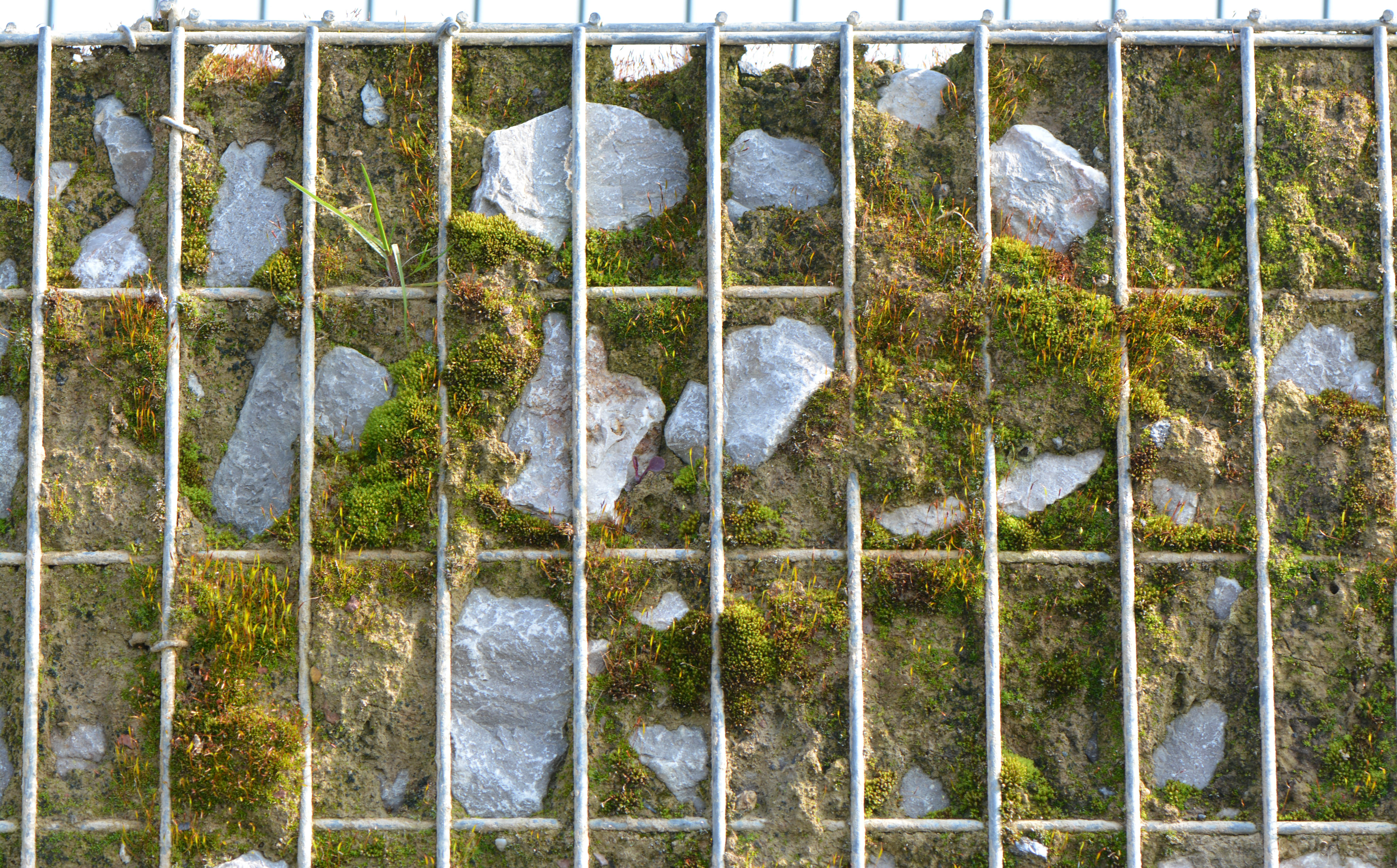 On a part of the fortifications of Vauban Citadel in Lille (north of France), during a restoration of counterguard, an experiment for the biodiversity has been conducted. It must allow some plants and animals species (invertebrates, bats) living on the site, and allow the public to observe them. Here, the Architect of the buildings of France authorized an experimental construction : a few meters of gabions filled with small hard limestone stones and earth, and (over 100 meter in length) he authorized (the long of a small pathway) a little wall of special blocks, assembled with clay and filled with compact poor soil (made from clay and lime).Interest : natural spores and seeds of wild plants, adapted to this environment comes with wind, insects, birds, etc. There is self-selection of species. Many insects and invertebrates will be able to enjoy the microhabitats that occur naturally in the wall, that should not require maintenance. A self-adaptive living communities in this microclimate is expected (hot and dry conditions were very windy).